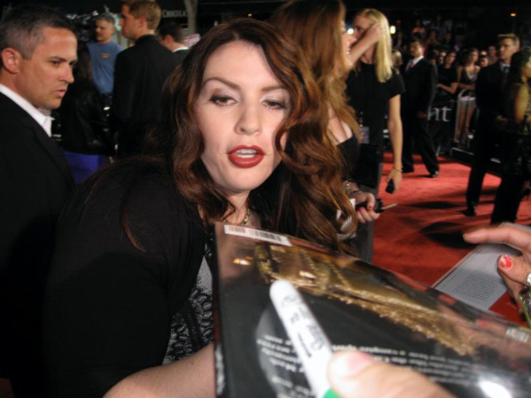 American author Stephenie Meyer at the Twilight premiere. November 2008